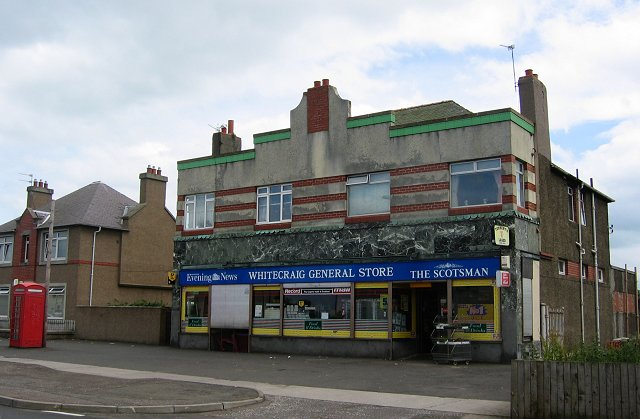 Whitecraig. Village shop in Whitecraig, a mining village that does not feature on the VisionsofBritain map.